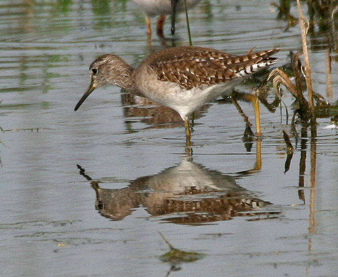 Wood Sandpiper Tringa glareola near Hodal, Faridabad, Haryana, India.